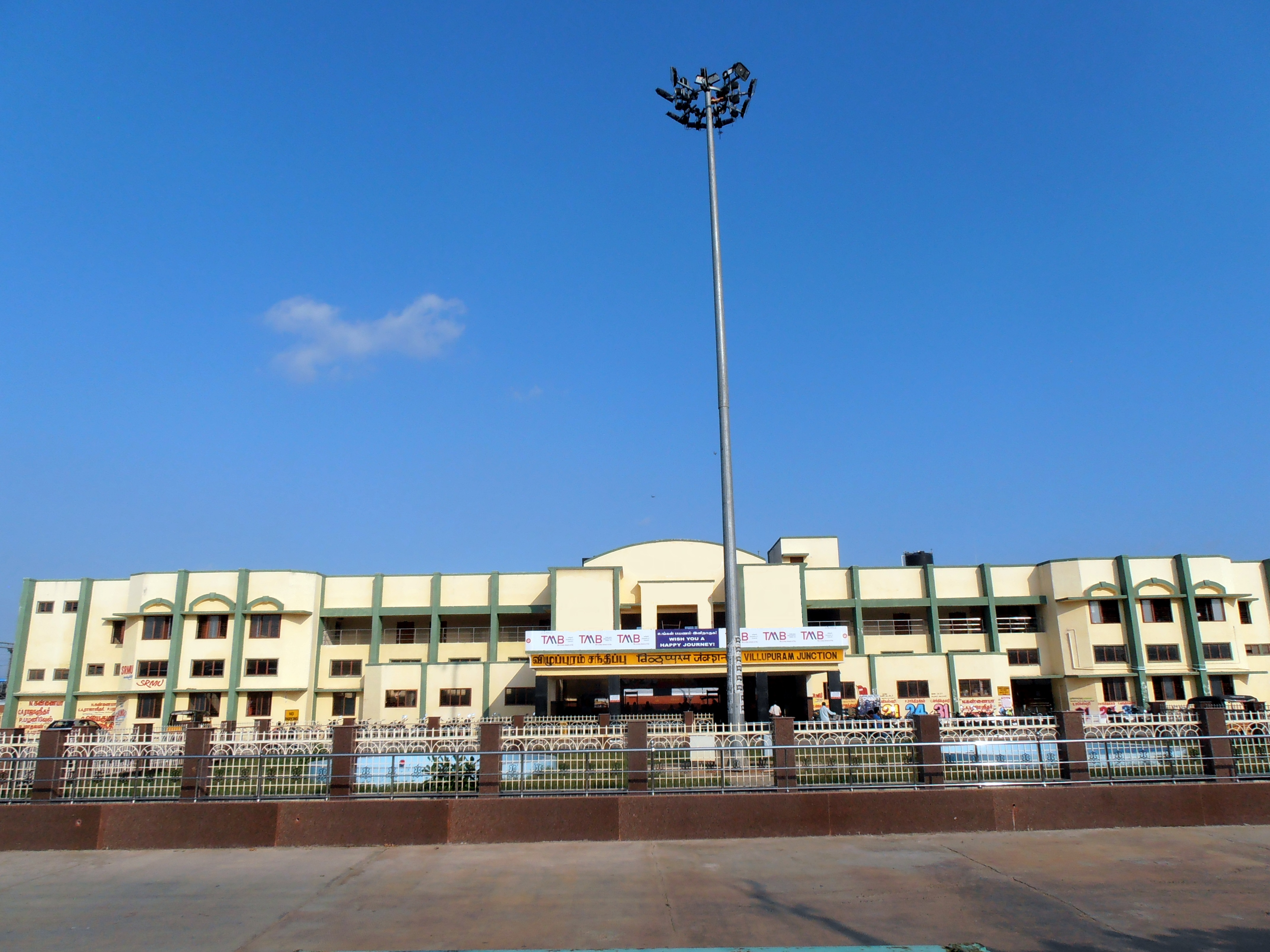 Viluppuram Railway Junction Main Building